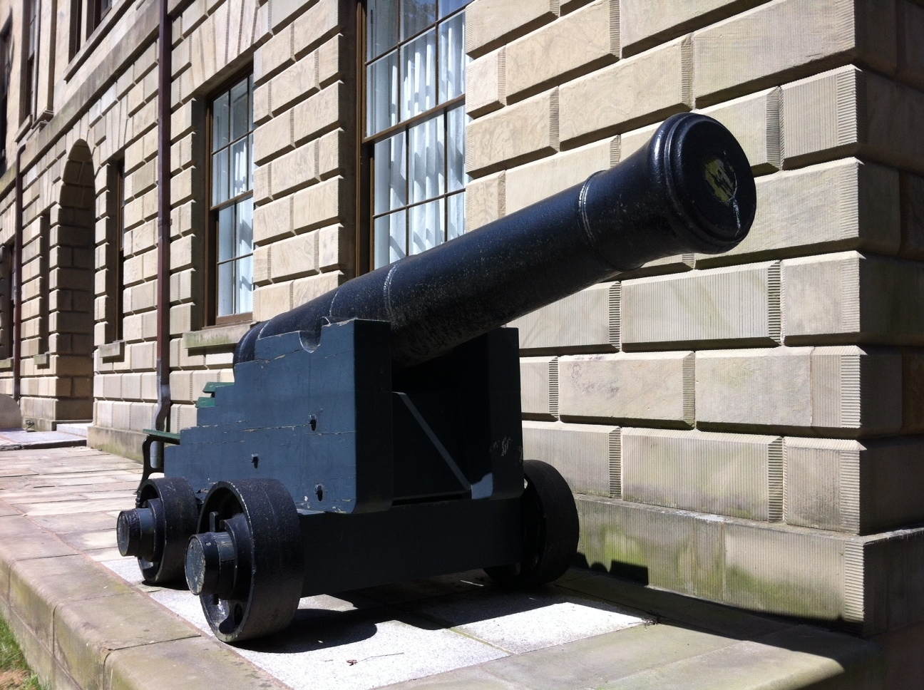 Chesapeake Canon Province House Nova Scotia